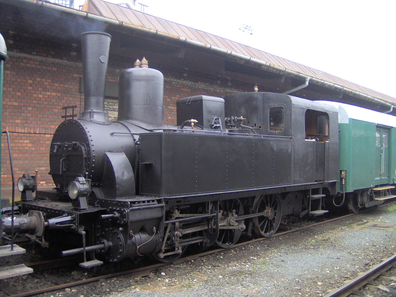 Steam locomotive 314.303, Olomouc main station, Czech Republic